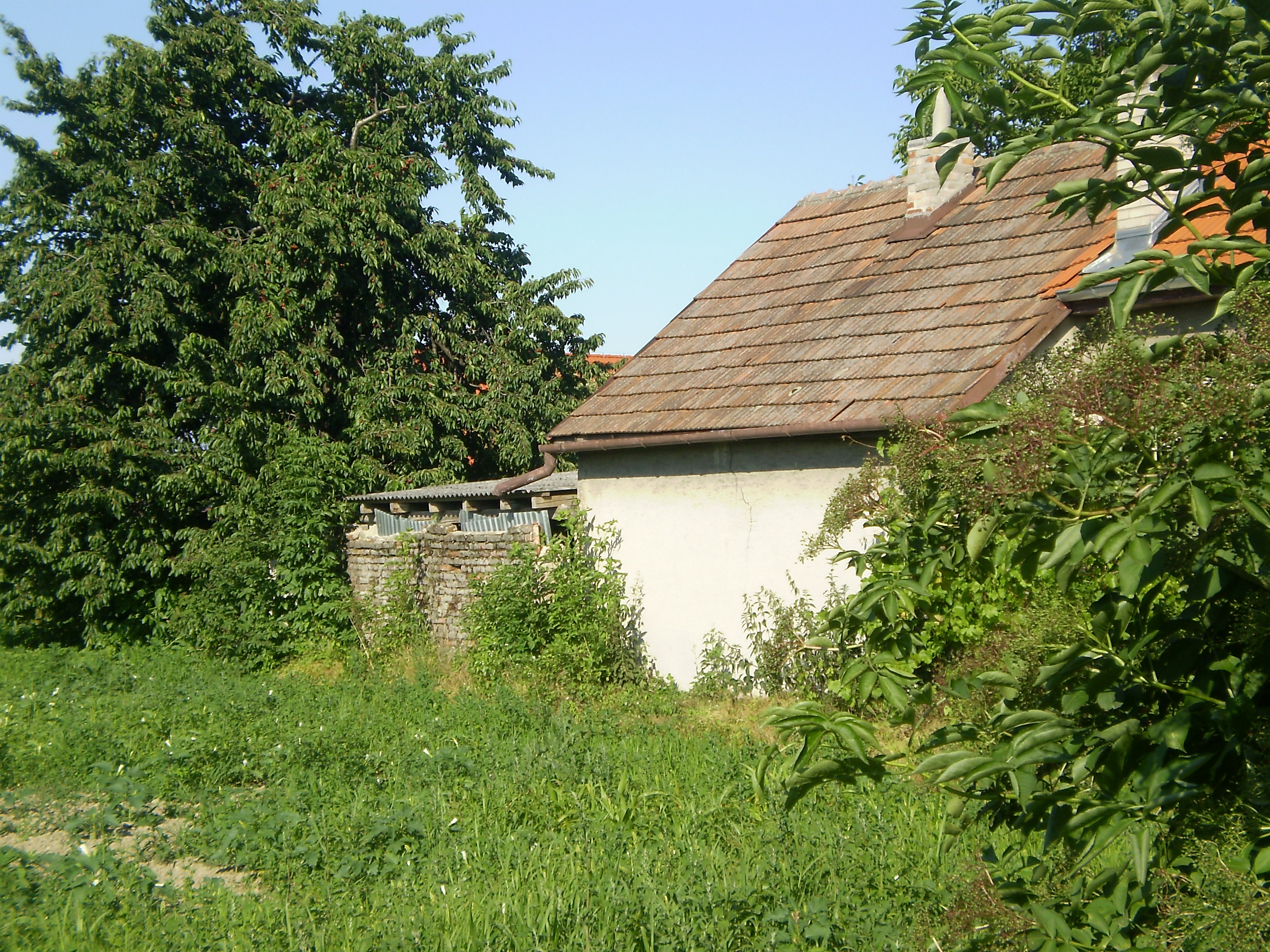 This is a traditional looking house in Rovinka